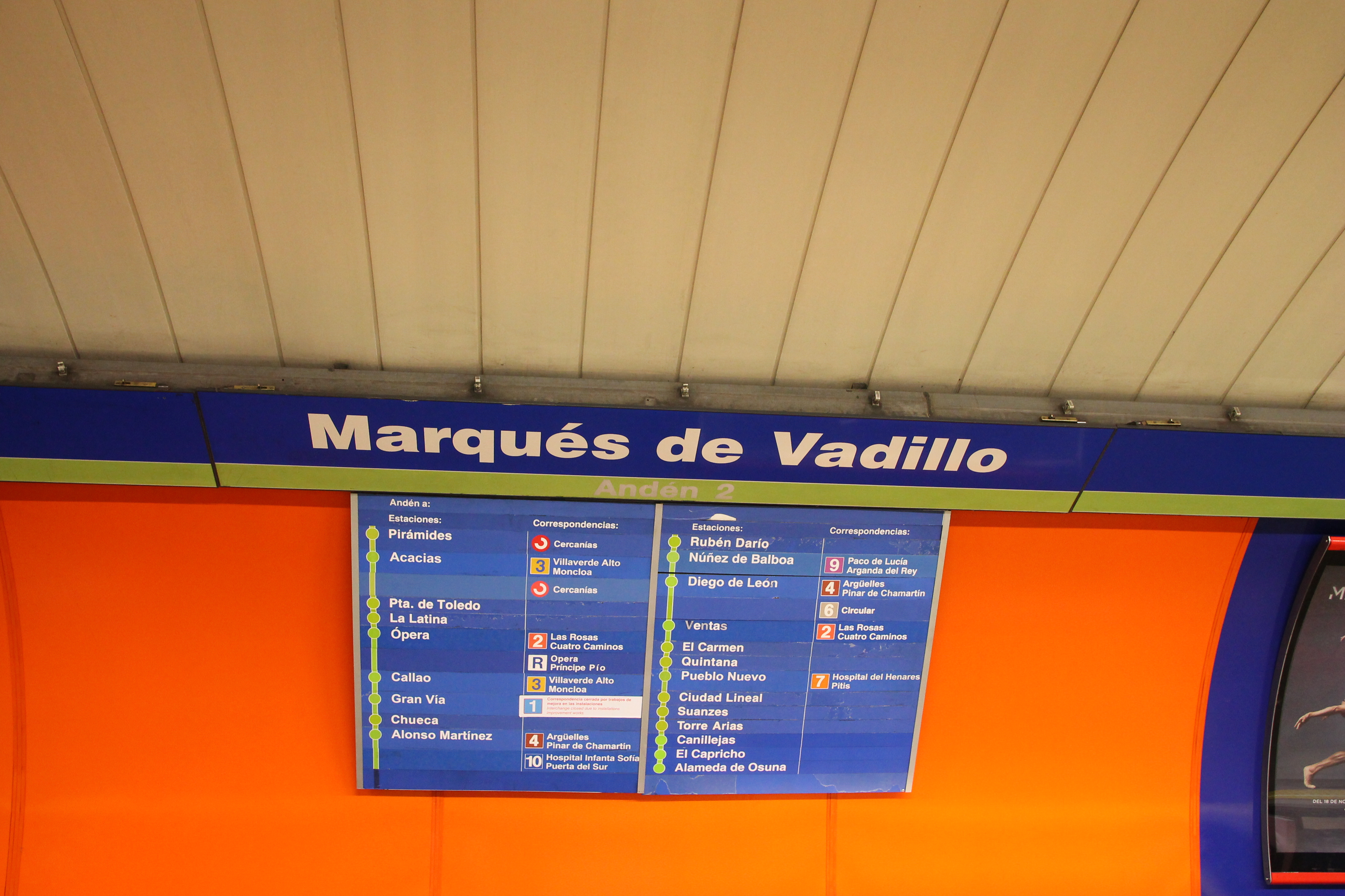 Estación de Marqués de Vadillo